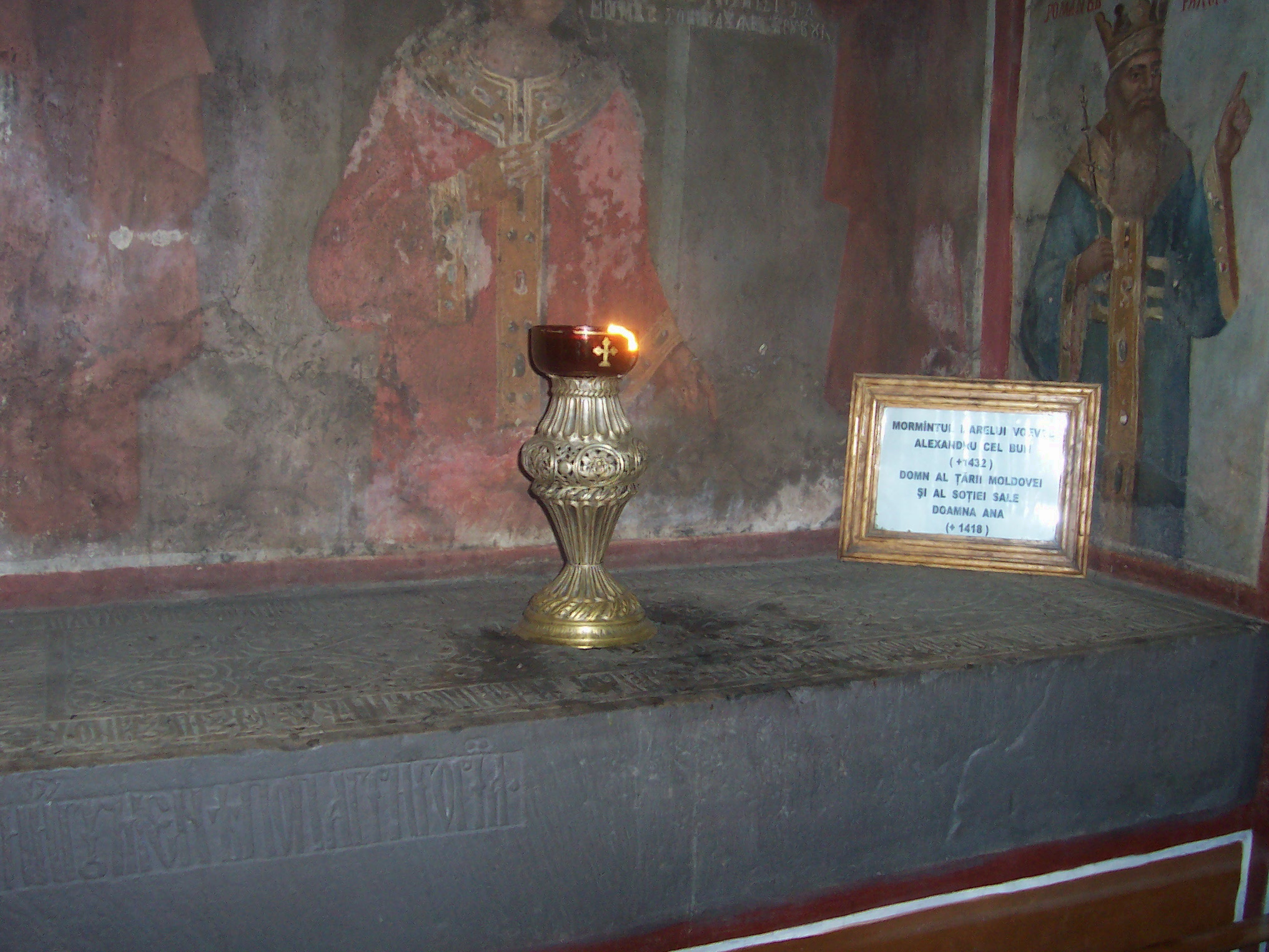 The tomb of Alexandru cel BunRomână: Mormîntul lui Alexandru cel Bun şi a soţiei Ana în cadrul mănăstirii Bistriţa, satul Bistrița, comuna Alexandru cel Bun, județul Neamț, România.